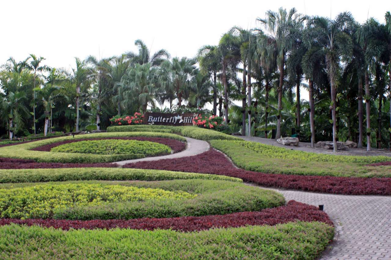 Nong Nooch botanical garden, Butterfly garden, Thailand